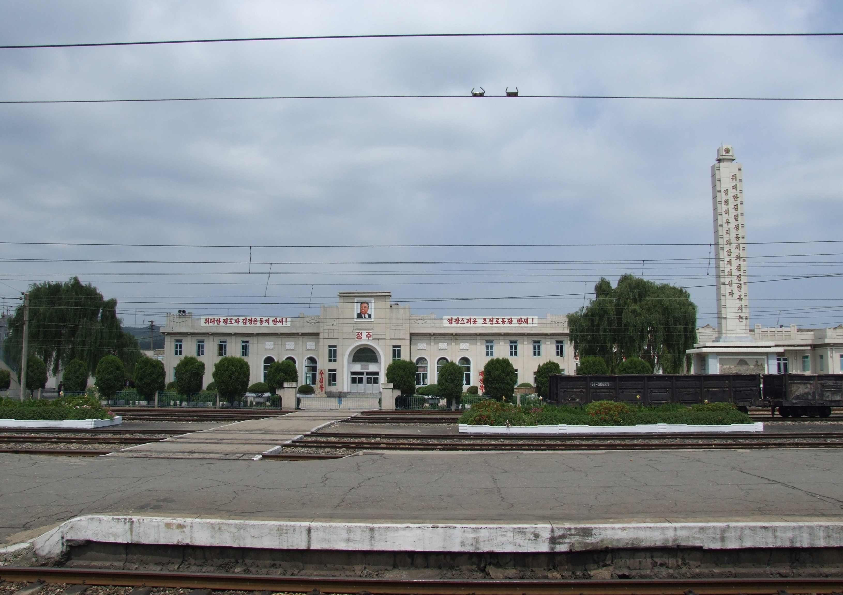 Jongju Station